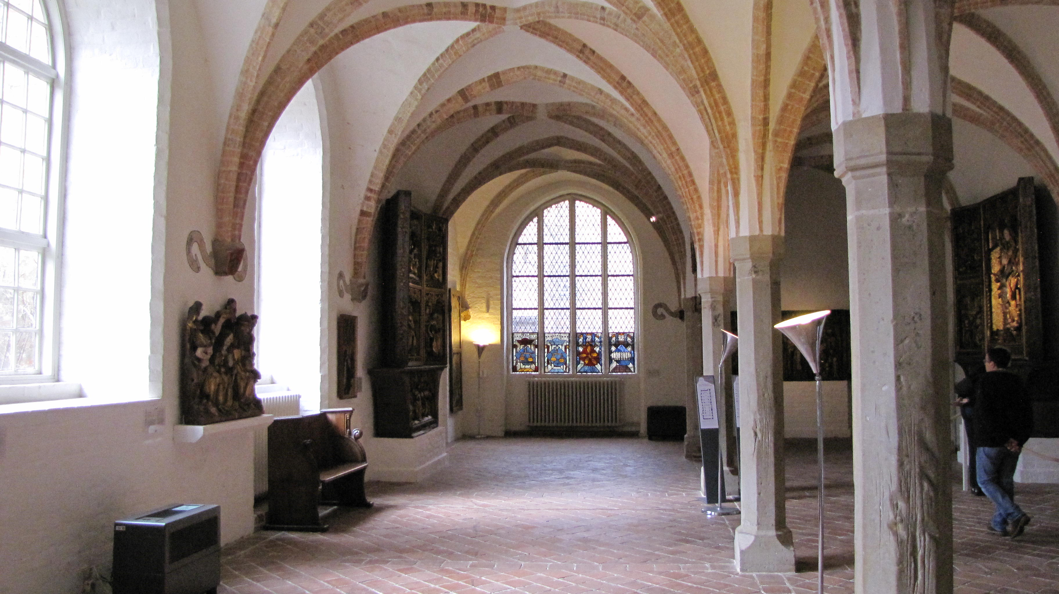 Remter of St.-Annen-Museum, Lübeck